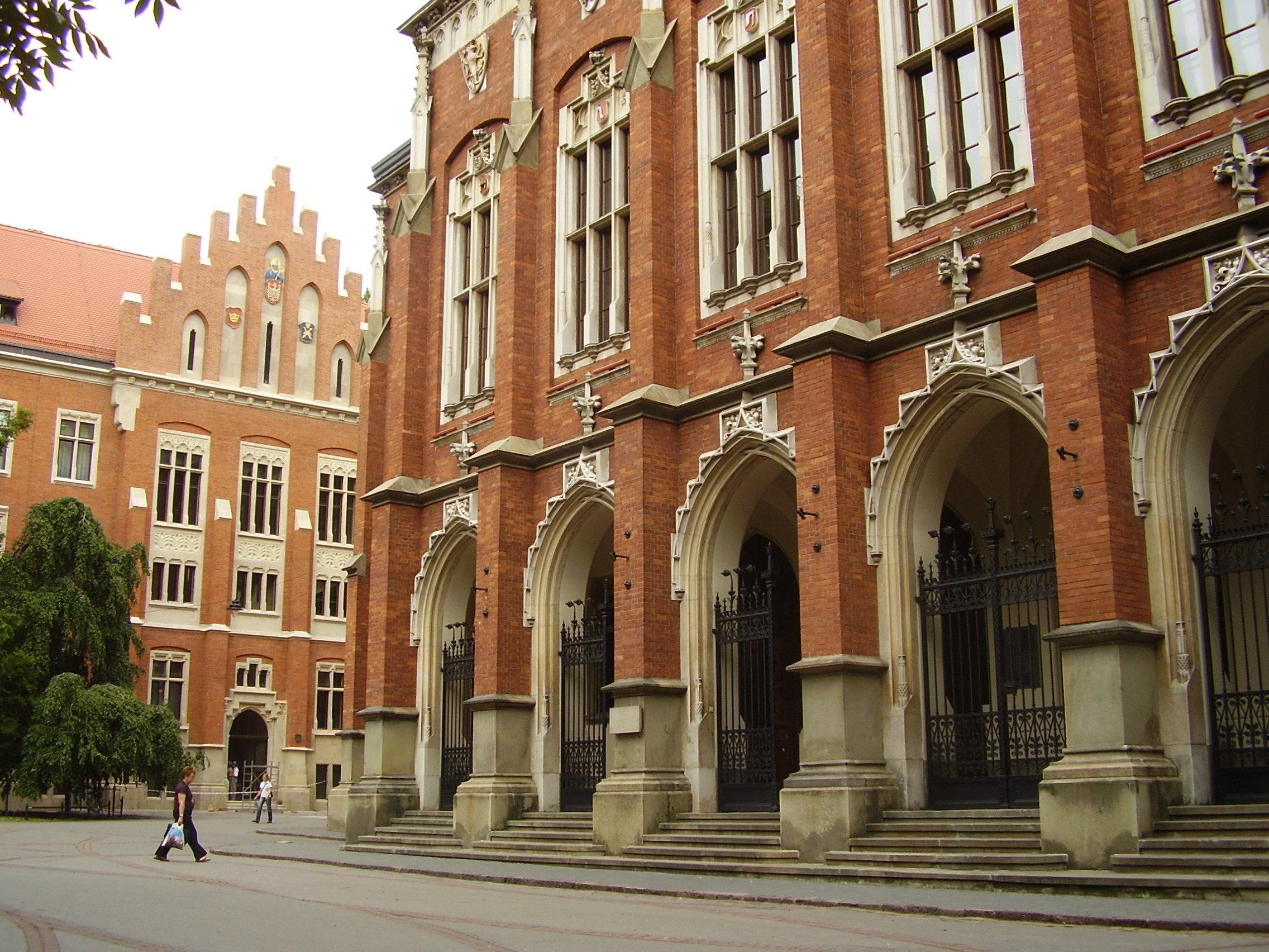 Collegium Novum at right, Collegium Witkowskiego at left, Kraków, Poland